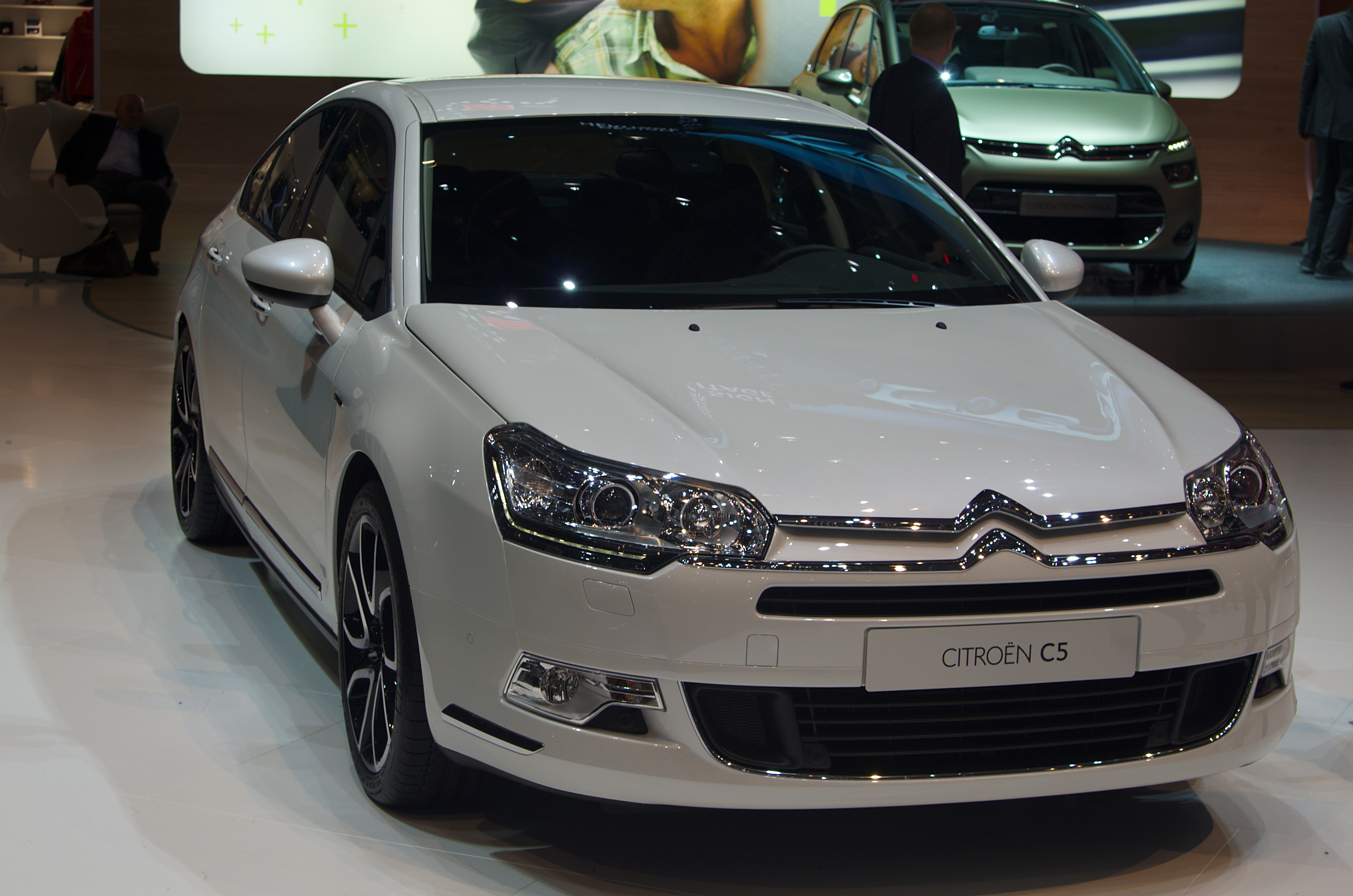 Geneva MotorShow 2013 - Citroen front view